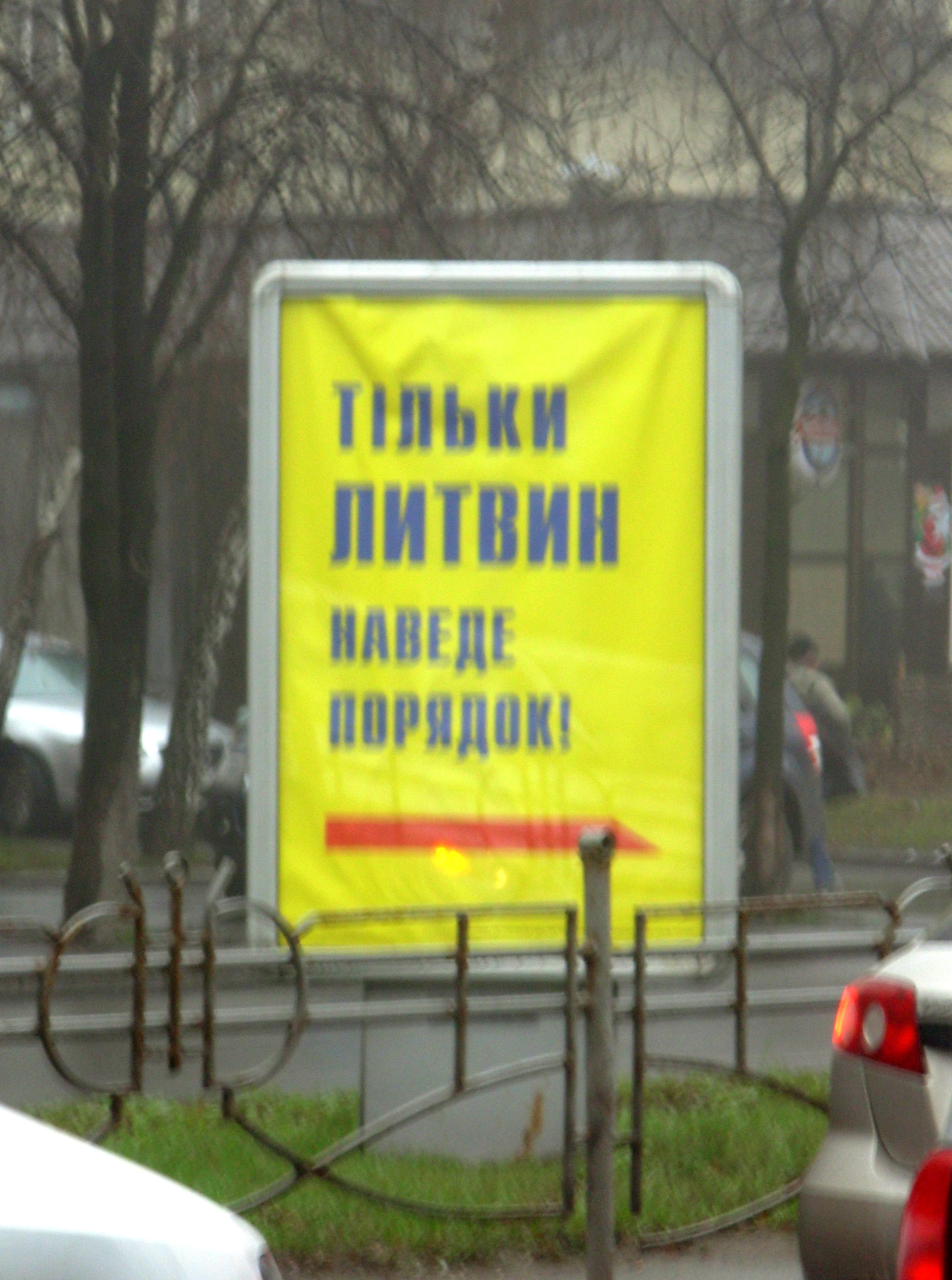 Poster promoting candidate for Presidency Volodymyr Lytvyn, Kyiv, 2009